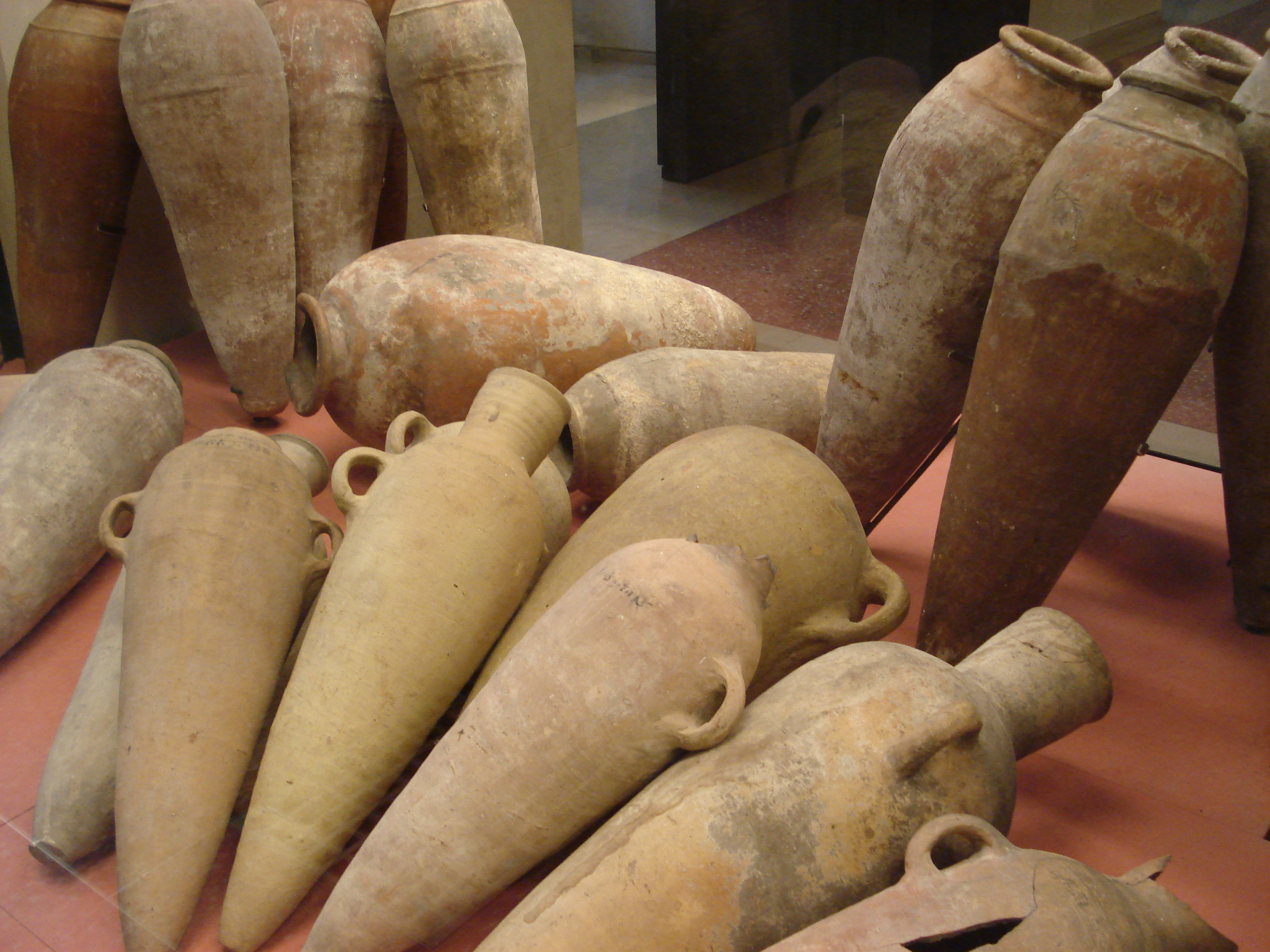 Louvre Museum